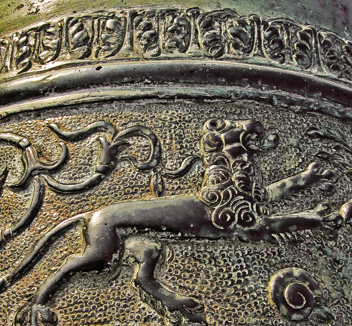 Heraldic lion shown on the barrel of the Seri Rambai cannon, Fort Cornwallis, George Town ,Penang